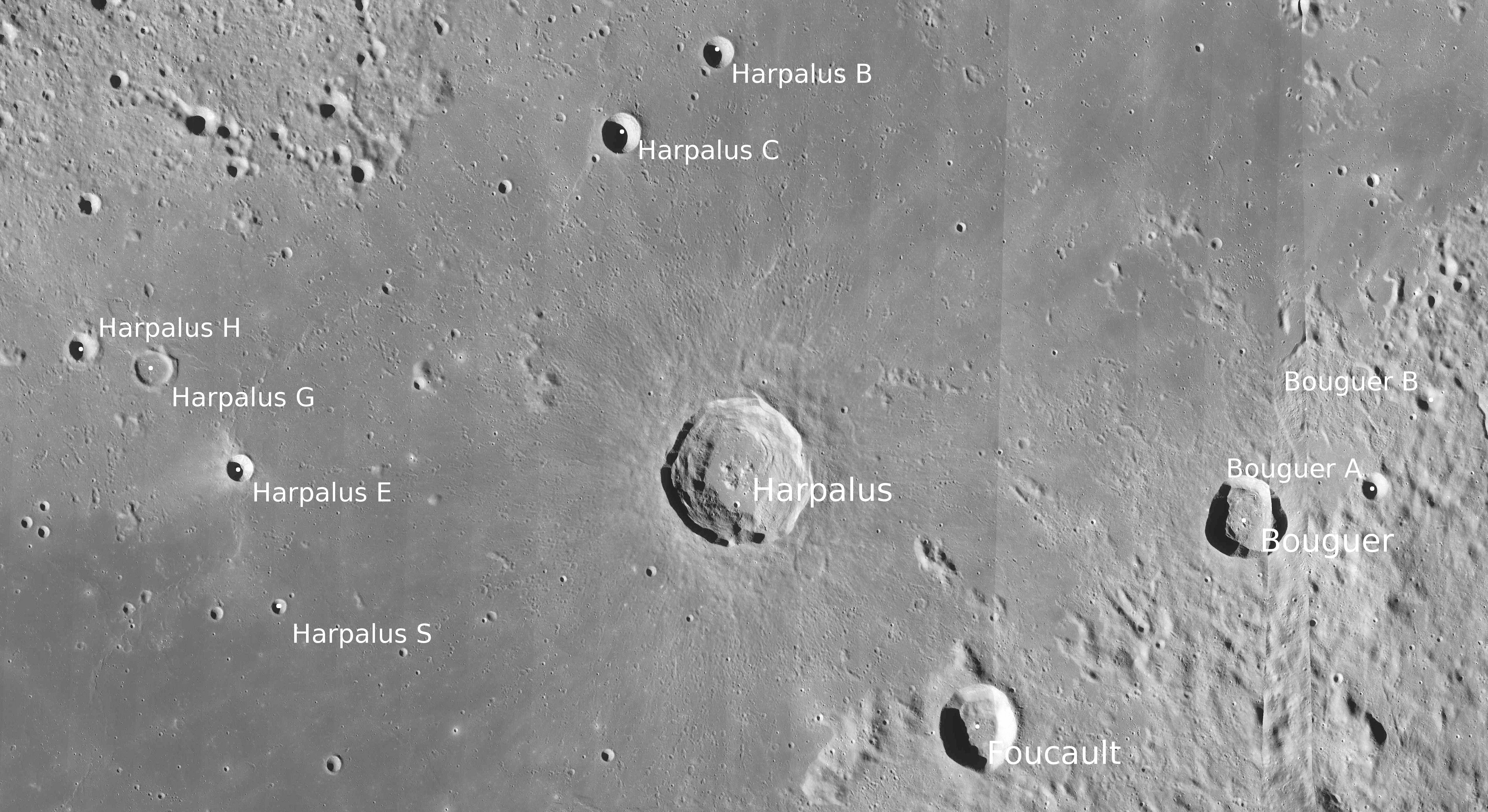 Moon craters Harpalus, Foucault and Boguer with satellite features (detail of LRO - WAC global moon mosaic)